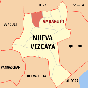 Map of Nueva Vizcaya showing the location of Ambaguio